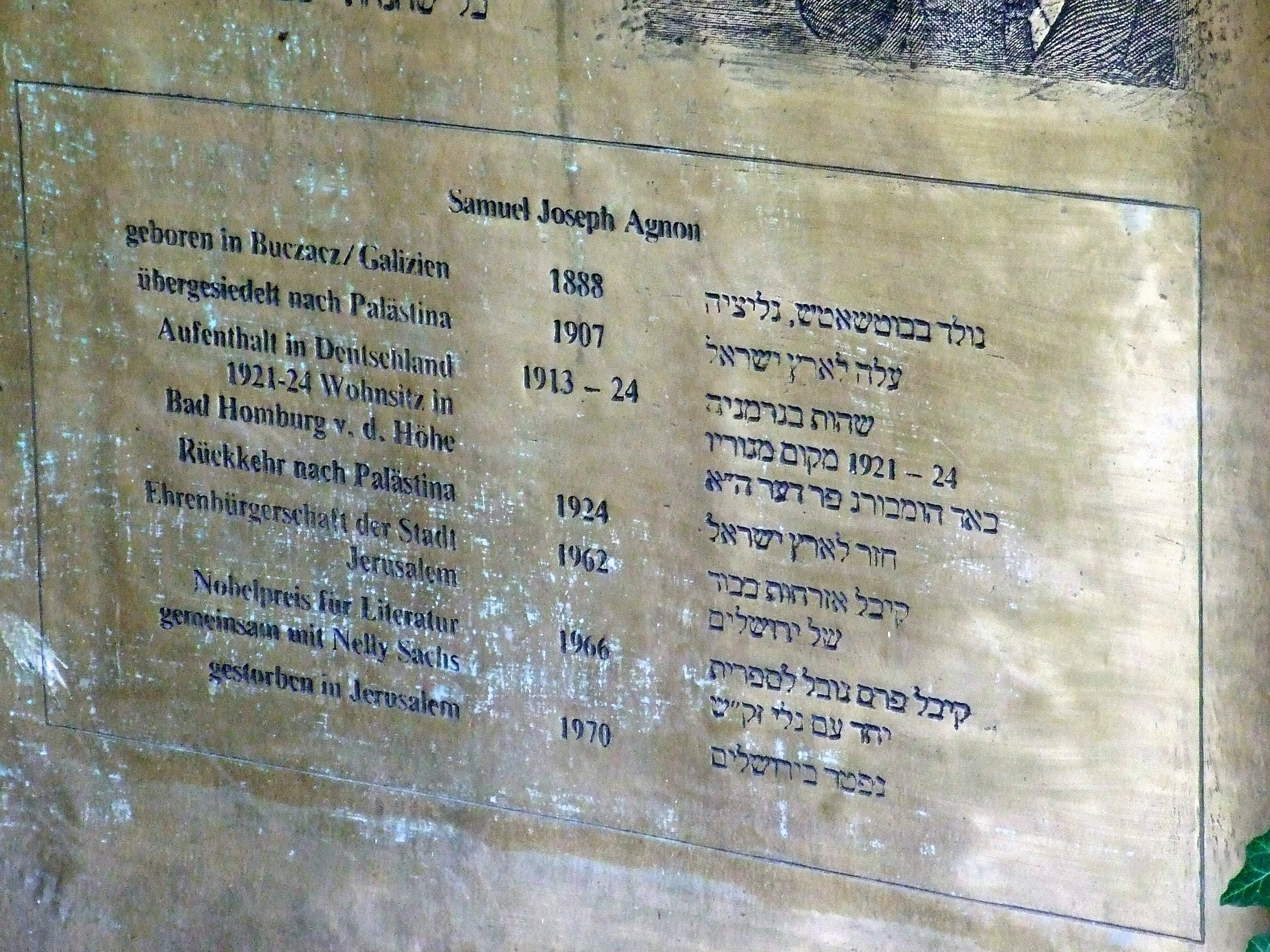 Samuel Joseph Agnon-Memorial in the "Kurpark" of Bad Homburg, Hesse, Germany